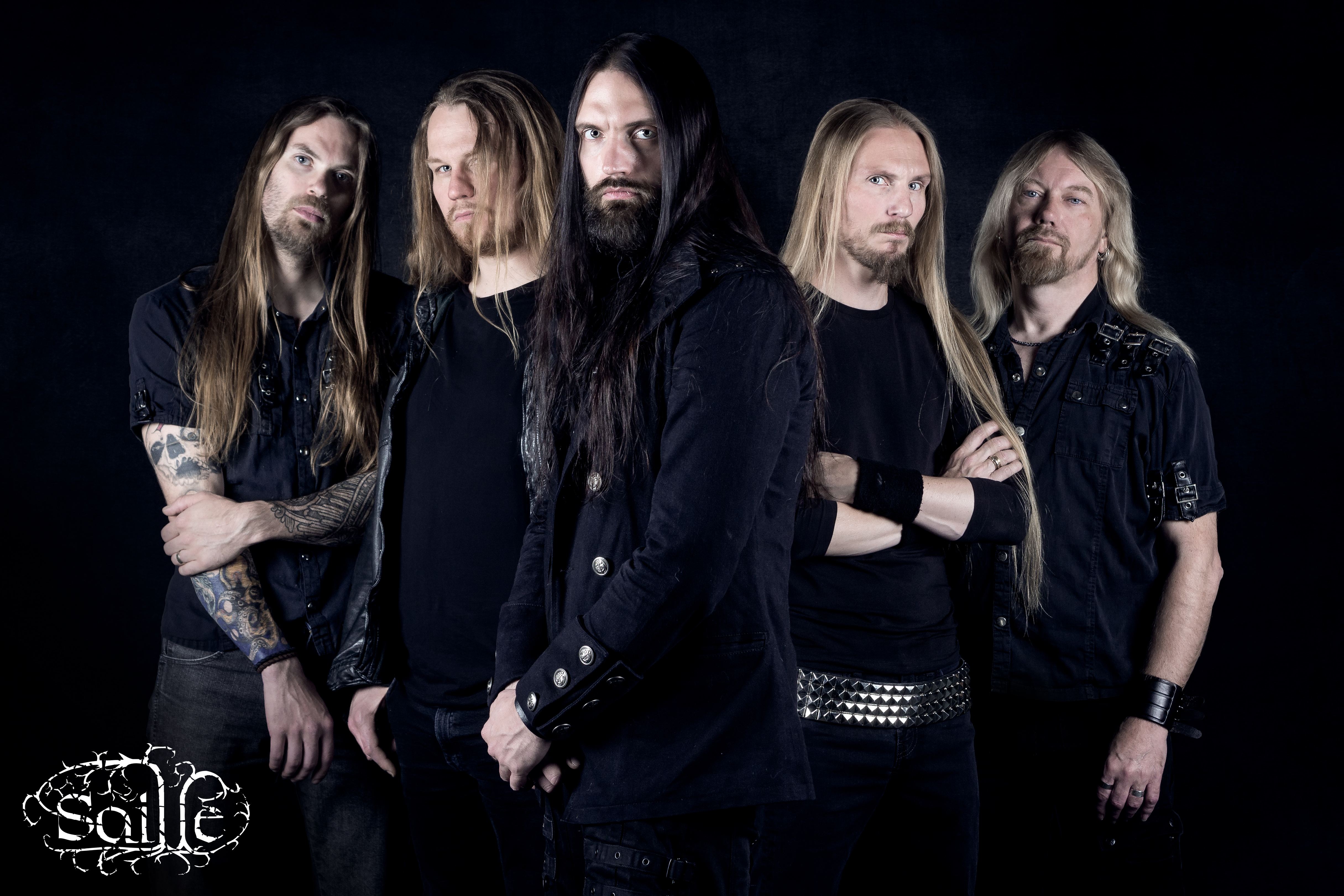 Band picture members of Black Metal band Saille of Belgium 02